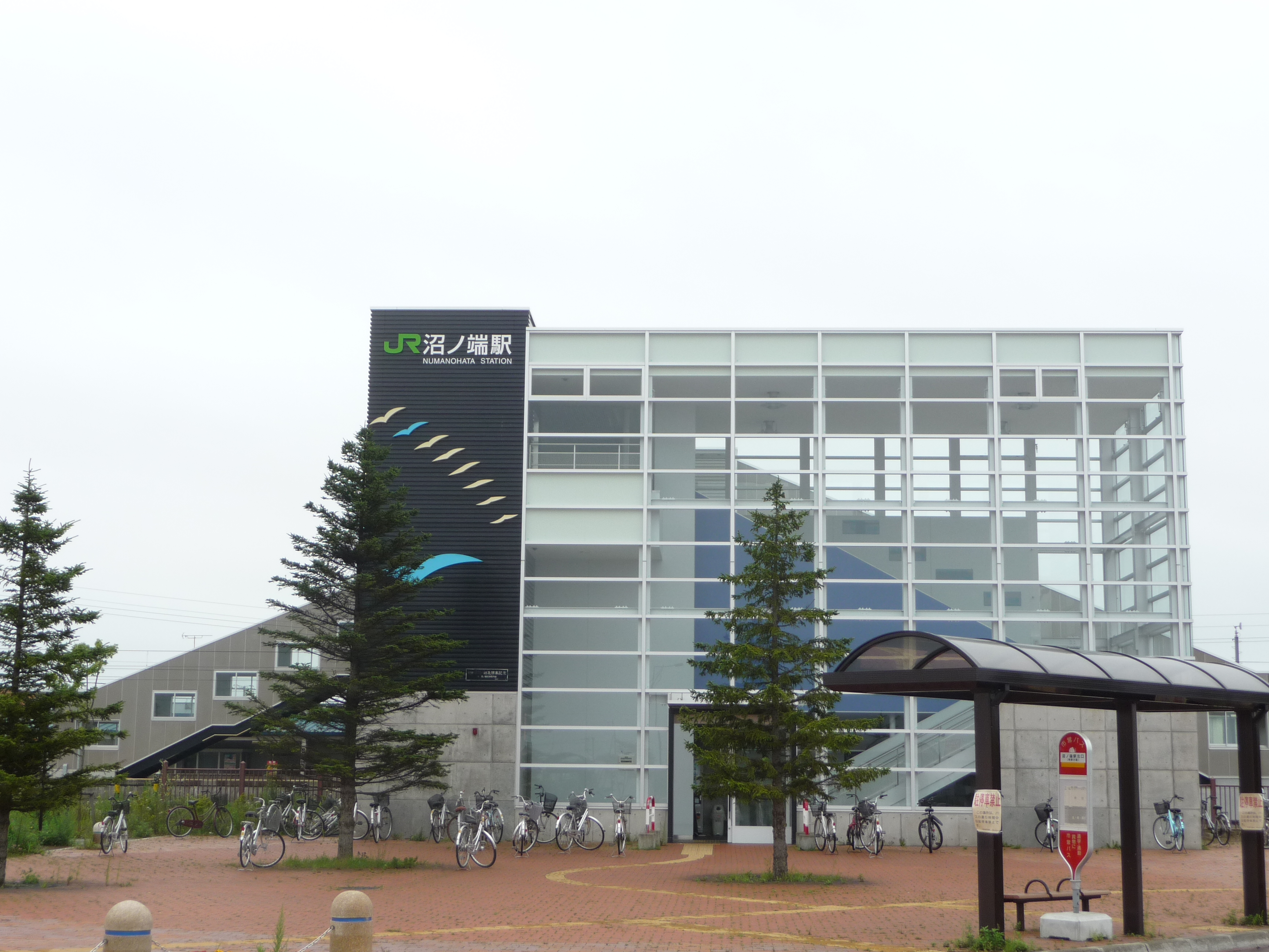 Numanohata Station